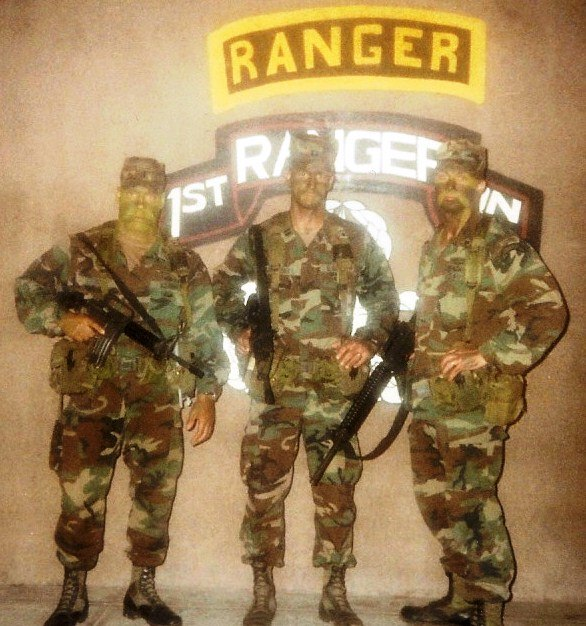 1LT Joseph Yorio, CPT Jeffery Jarkowsky and SSG Paul Johnson 1/75 Ranger Regiment 1990